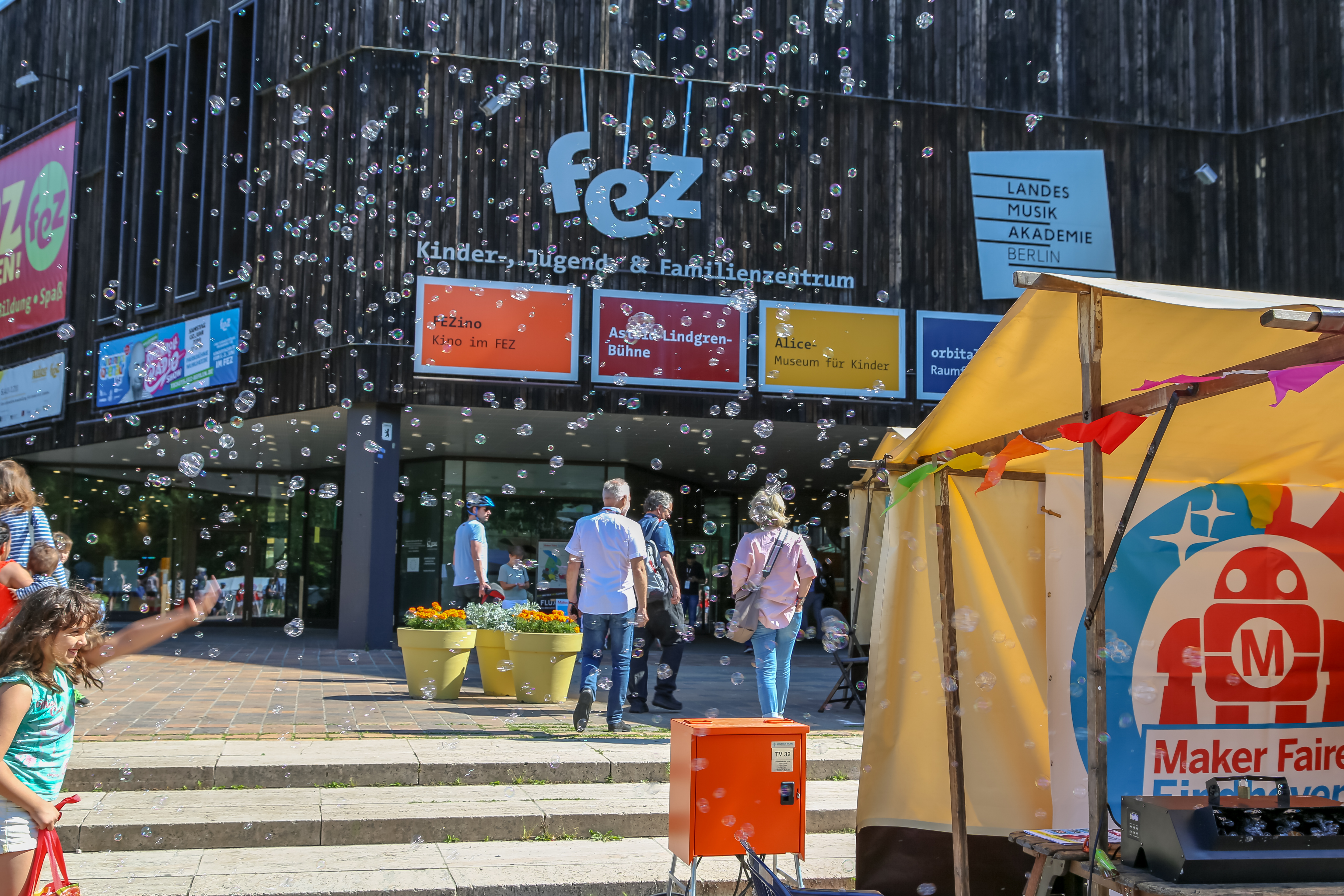 Maker Faire Berlin 2018, FEZ Wuhlheide